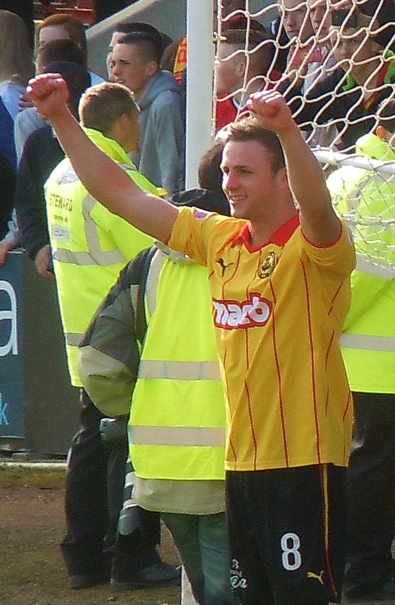 Footballer Christie Elliot